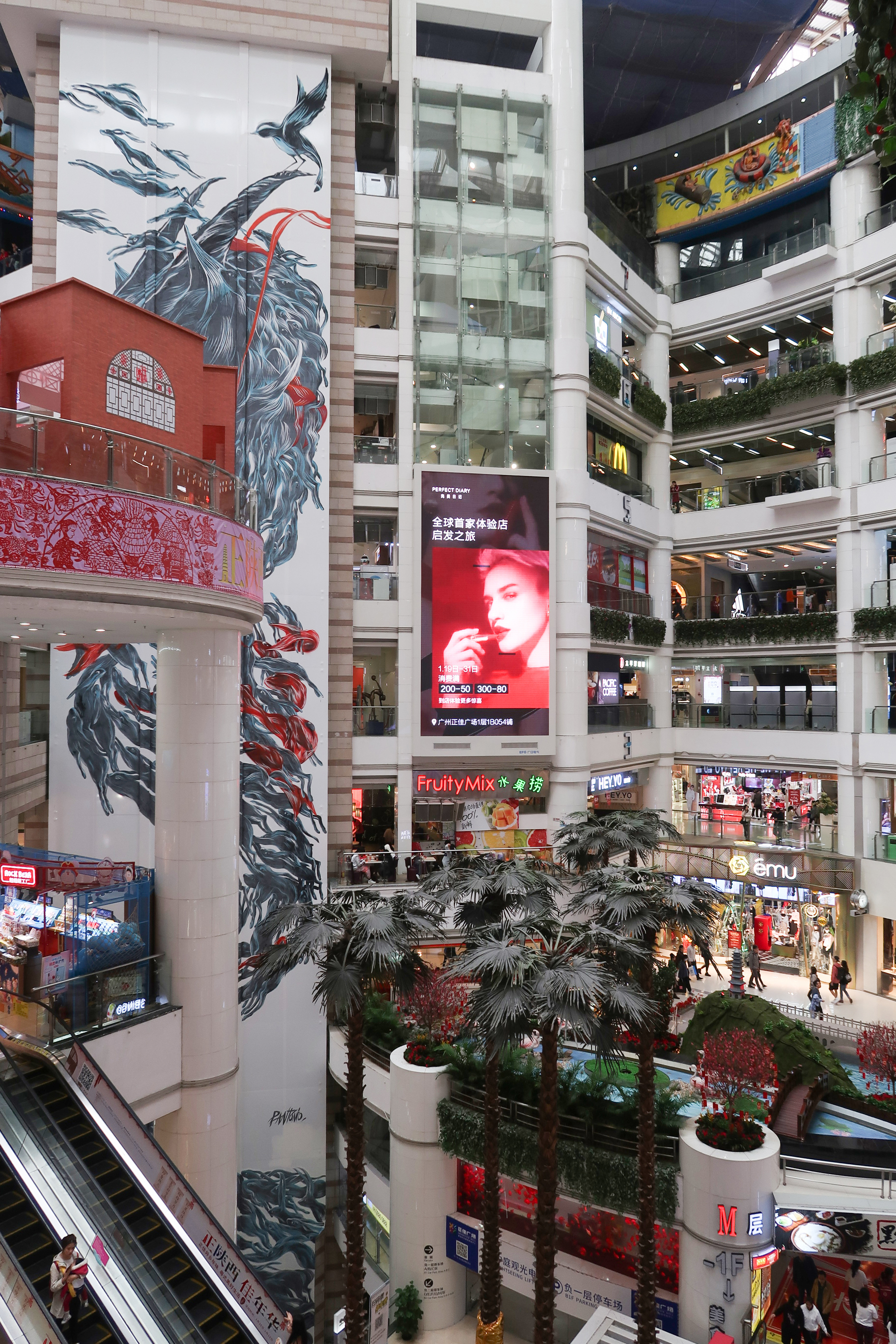 Grandview Mall Central Atrium